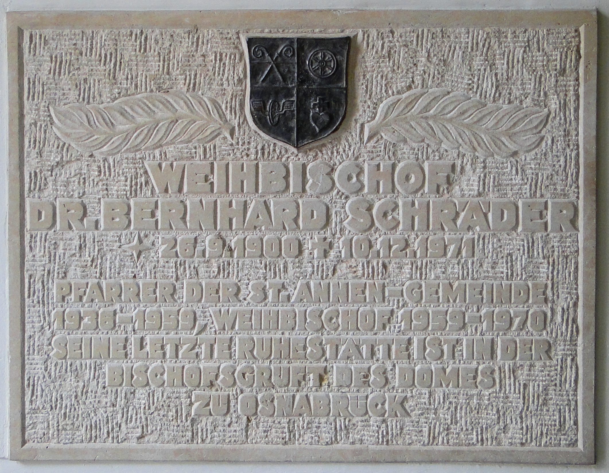 Memorial for Bernhard Schräder in the Church St. Anna in Schwerin, Mecklenburg-Vorpommern, Germany